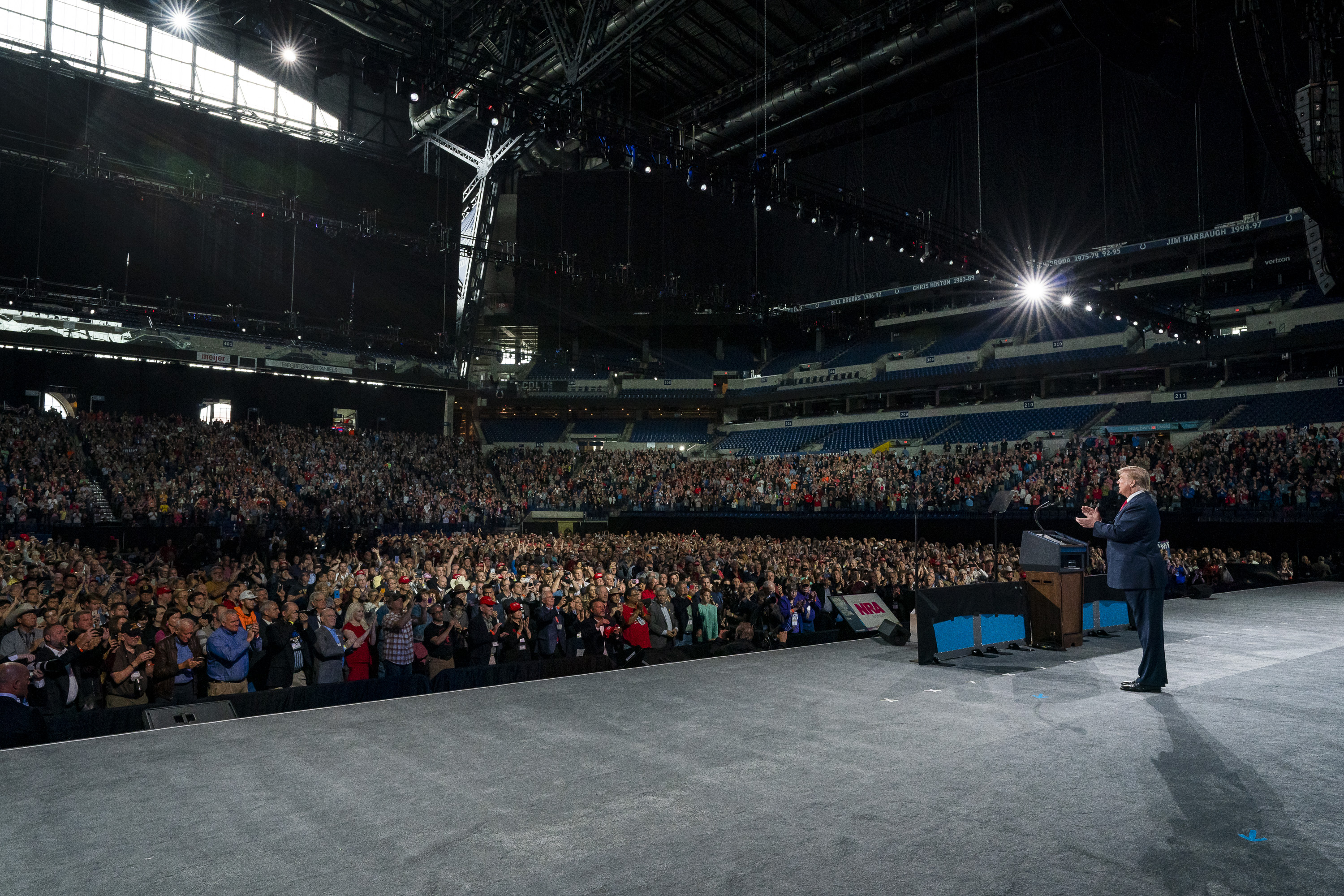 President Donald J. Trump addresses his remarks Friday, April 26, 2019, at the National Rifle Association annual convention in Indianapolis, Ind. (Official White House Photo by Tia Dufour)